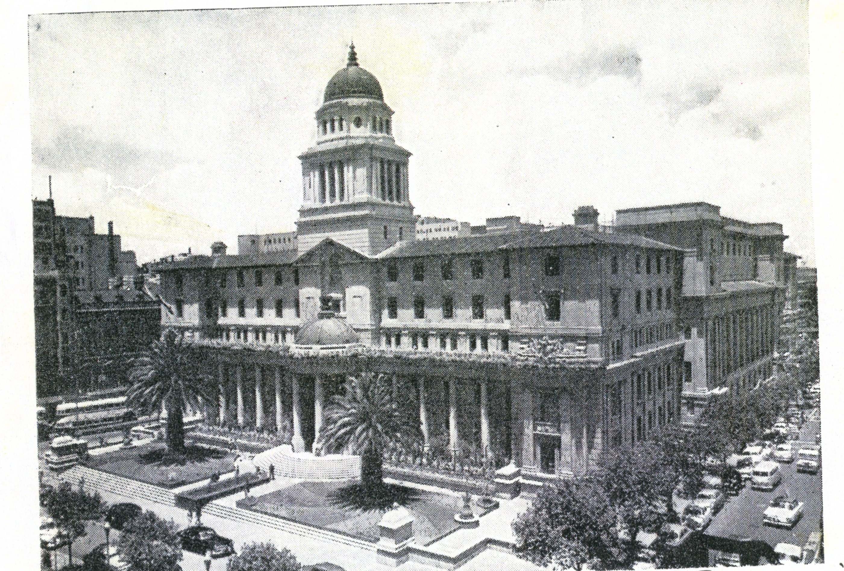 Johannesburg city hall in 1964.This is a Johannesburg heritage foundation picture donated to the Wikimedia commons for free use under the joburgpedia project